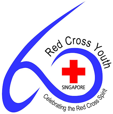 Singapore Red Cross Youth 60th Anniversary Logo. The design revolves around the 60th anniversary of Red Cross Youth and its continuity into the future. The number 60 takes center stage and is designed to resemble a modified infinity symbol. The infinity symbol symbolises the Red Cross’ continued traditions, its on-going commitment to the betterment of the human race and its progress. It has also been modified so that the numbers 1, 8, 6 and 3 are visible – a nod to the year the Red Cross was founded. The Red Cross emblem is positioned together with the number 60 in a way that it also takes on the meaning of 60 years and counting, i.e. ’60+’. This once again, reflects our wish that the Red Cross will endure and forge ahead in the years to come. The infinity symbol also represents the connection between the Link and Cadet; the ‘arm’ of the number 6 symbolises the journey of the Cadet into the Youth Division. Blue, a colour traditionally associated with peace and calmness, is also a colour of unity, one of the seven fundamental values, and of protection. Furthermore, the colour trio of red, white and blue –a popular and aesthetically pleasant combination – brings a sense of continuity from the current logo used.